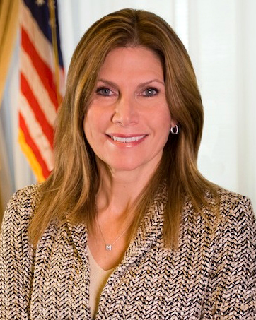 Official portrait of Congresswoman Mary Bono Mack.